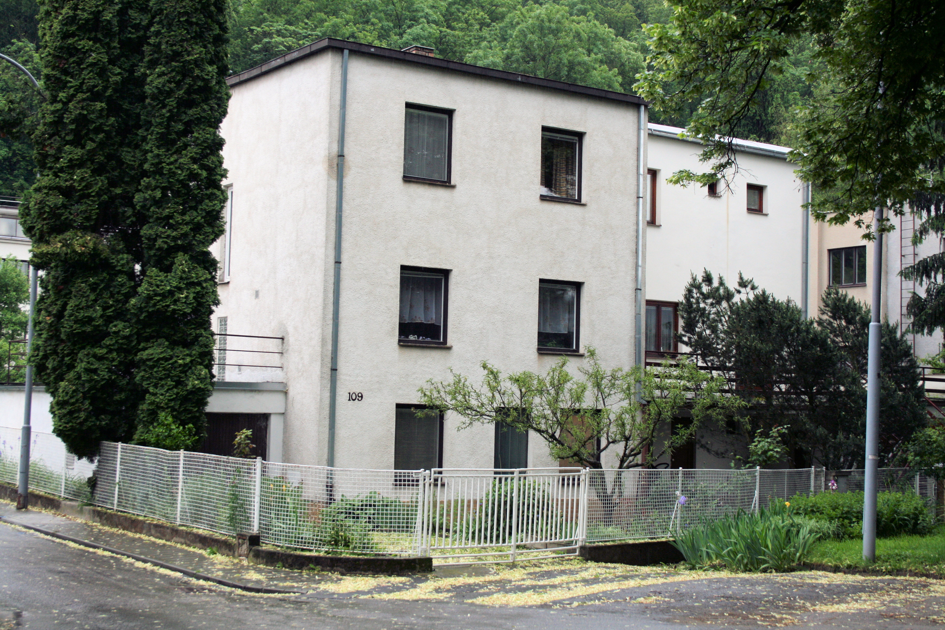 "Nový dům" (New House) settlement - 16 functionalist houses built in 1928 on occasion of an annual exhibition of contemporary culture, Brno, Czech Republic. Česky: Kolonie Nový dům - obytný komplex 16 funkcionalistických rodinných domků zbudovaných v roce 1928 v rámci jubilejní výstavy soudobé kultury. Dvojdům od architekta Arnošta Wiesnera, Bráfova ulice 109 a 111, Brno-Žabovřesky.